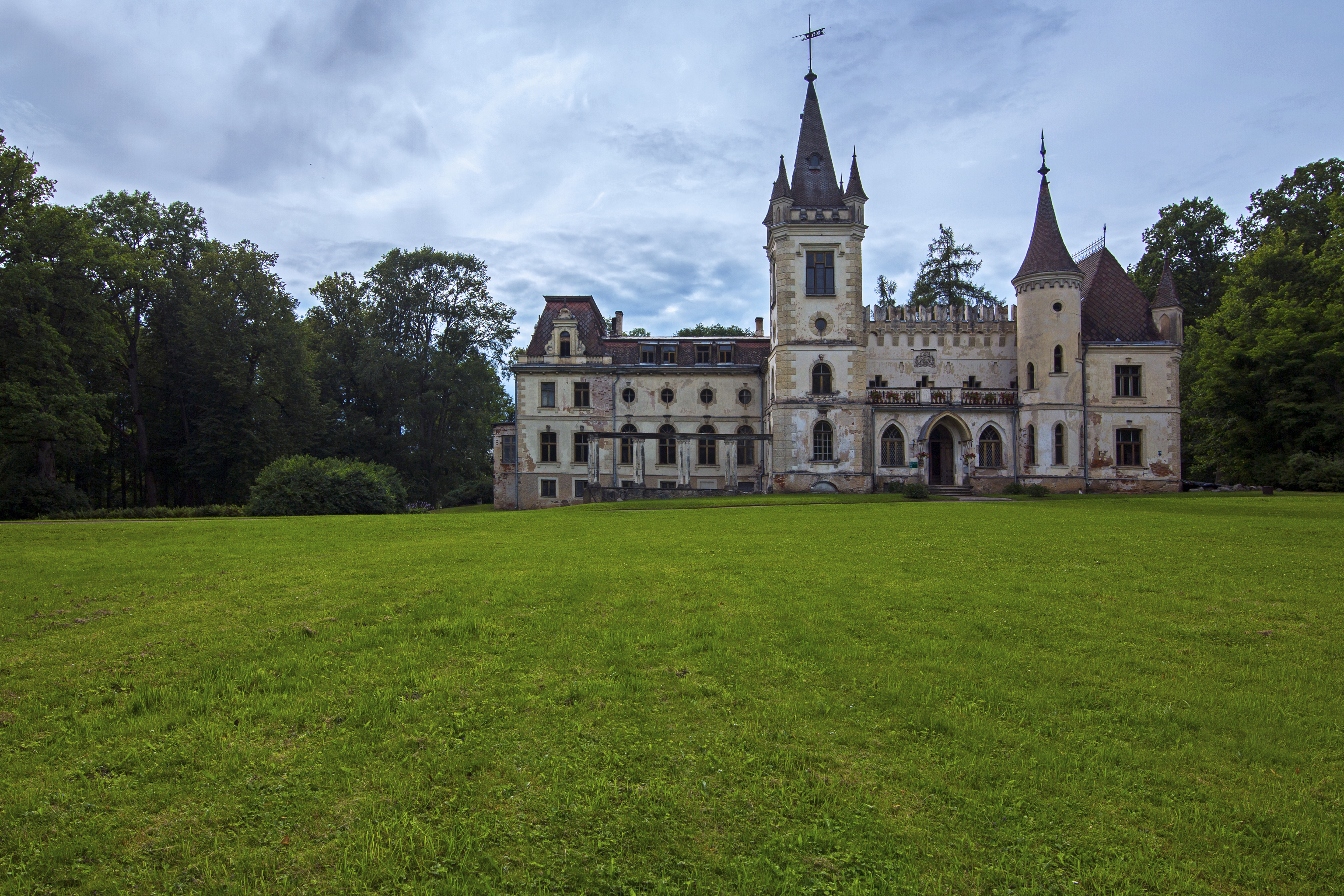 Latvia. Stameriena Castle.